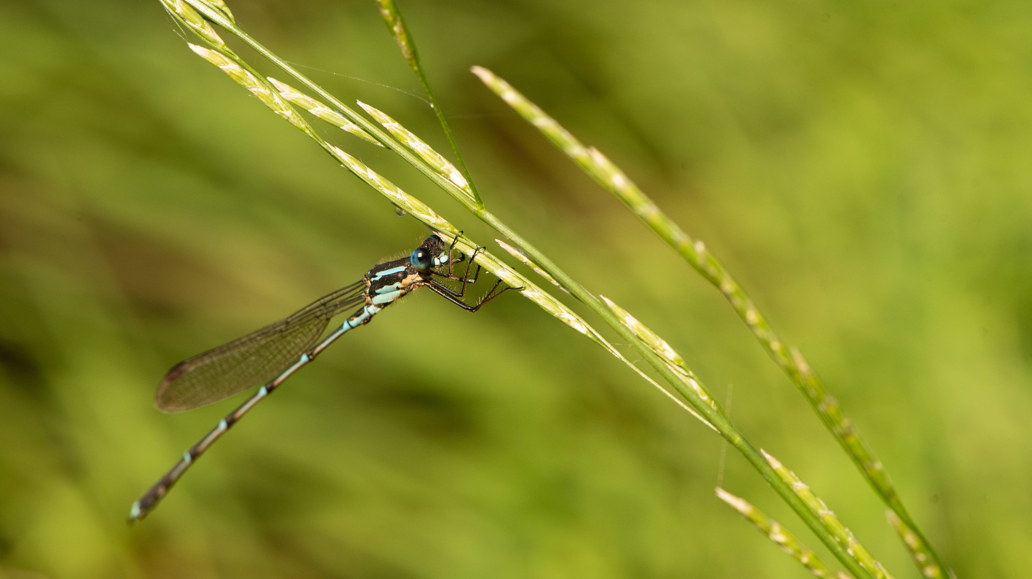 Austrolestes colensonis (Blue damselfly) at Ocean Grove, Dunedin, New Zealand